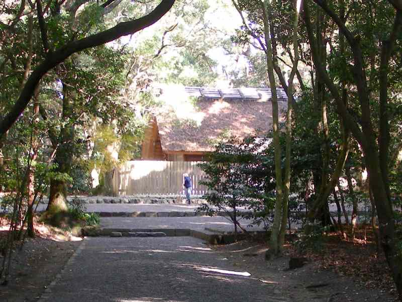 Mishioden-jinja is the salt supplier for Jingu, Futami-cho, Ise city Mie prefecture, Japan.